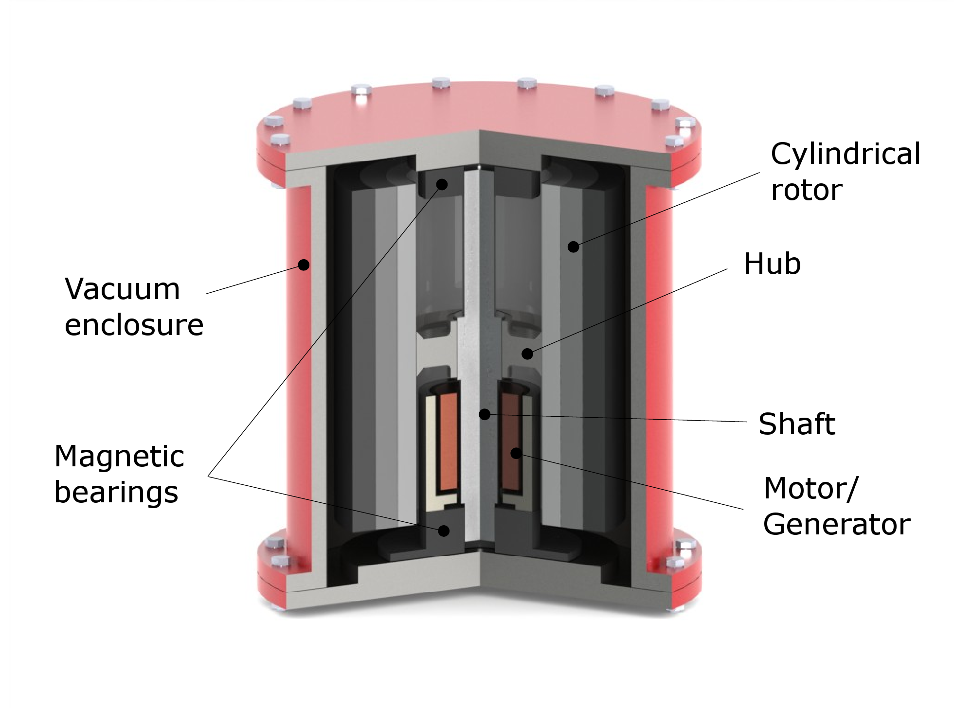 This image shows the main components of a typical cylindrical flywheel rotor assembly.